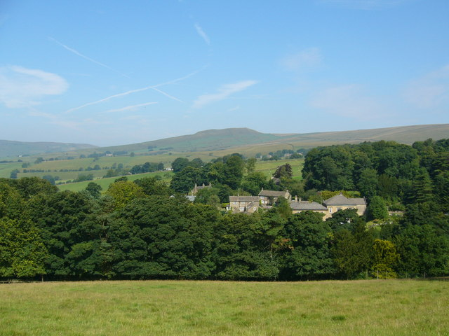 Ford Hall View Northwest from Chestnut Centre Wildlife park track, overlooking Ford hall to the hills beyond.